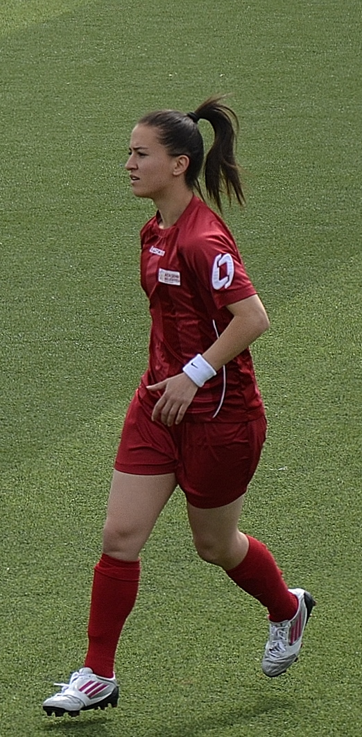 Fatma Kara for Ataşehir Belediyespor in the 2013-14 season